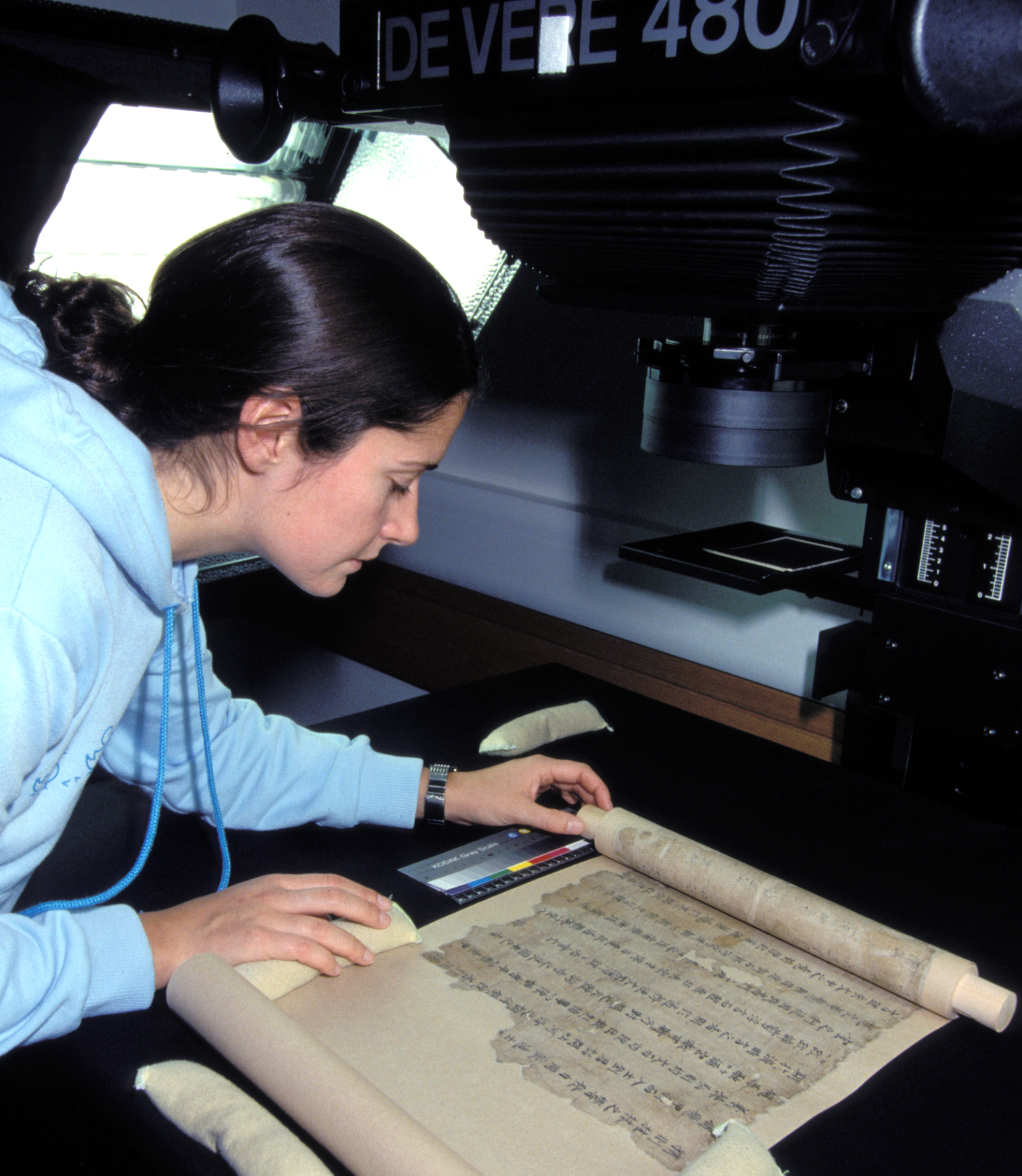 Digitisation of a Dunhuang manuscript (the Rabbit Garden Imperial Book Repository 兔園策府) in the IDP UK studio.